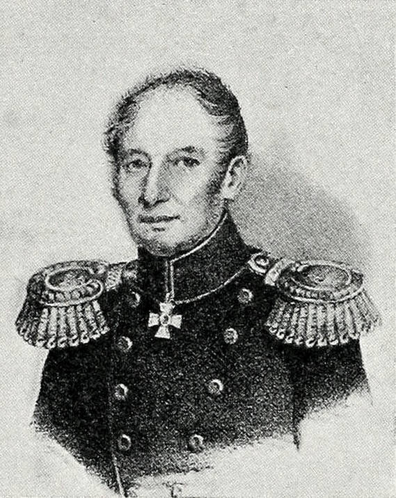 Karl Fyodorovich Klingenberg